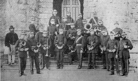 Black and white photo of the Cyfarthfa Band, one of the first ever taken of the band. The band is in uniform and stood on the steps of Cyfarthfa Castle, the house of its owner Robert Thompson Crawshay.